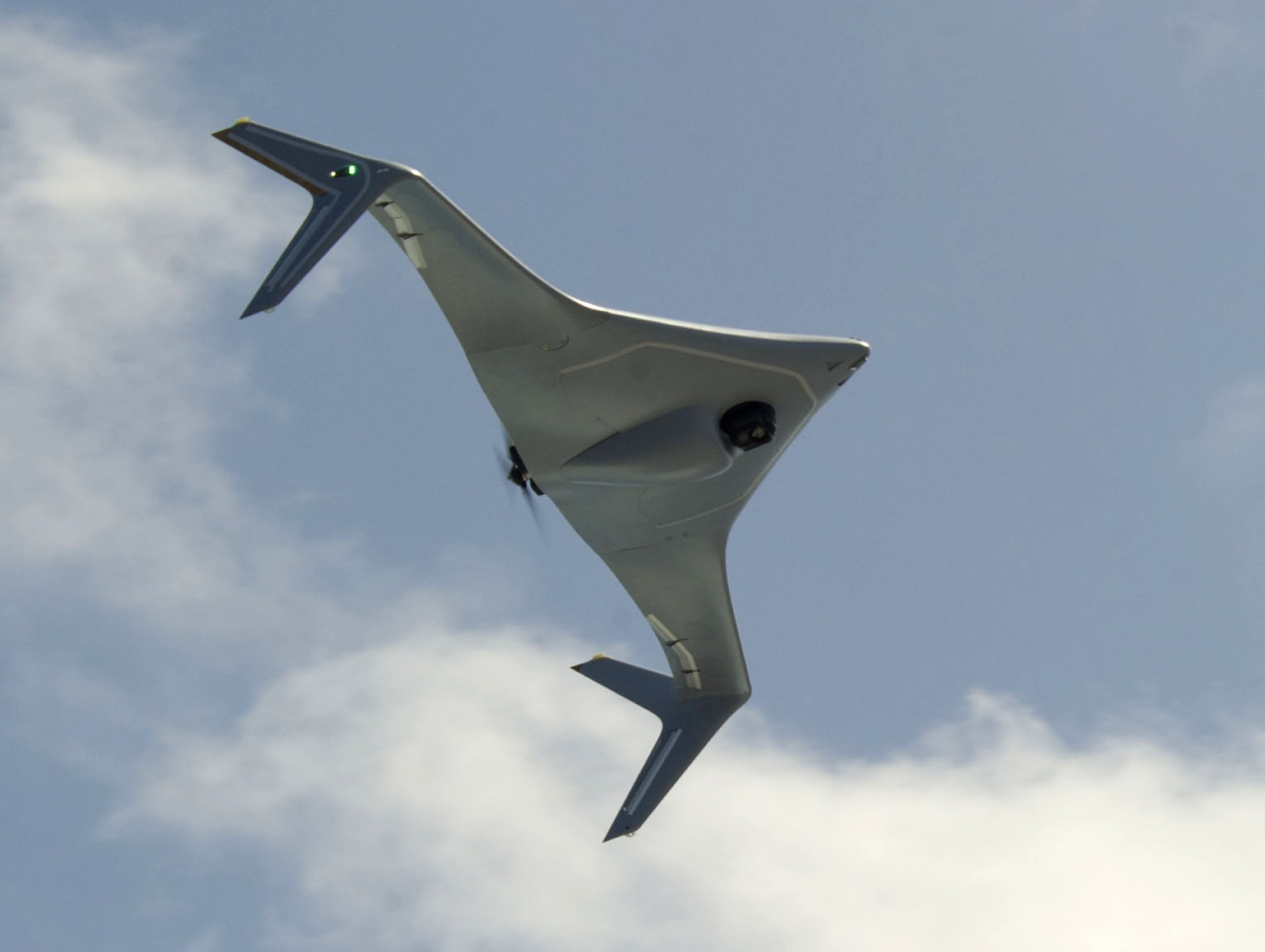 During an experimentation conducted by U.S. Fourth Fleet and Navy Warfare Development Command (NWDC), the Northrop Grumman Bat unmanned aircraft system flies over the joint high speed vessel USNS Spearhead (JHSV-1) during its maiden flight off of a U.S. Navy vessel in the Straits of Florida.